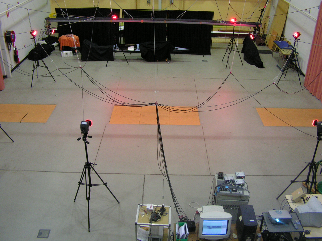 Gait laboratory equiped with mutltiple force platforms and ten infra-red motion capture cameras.